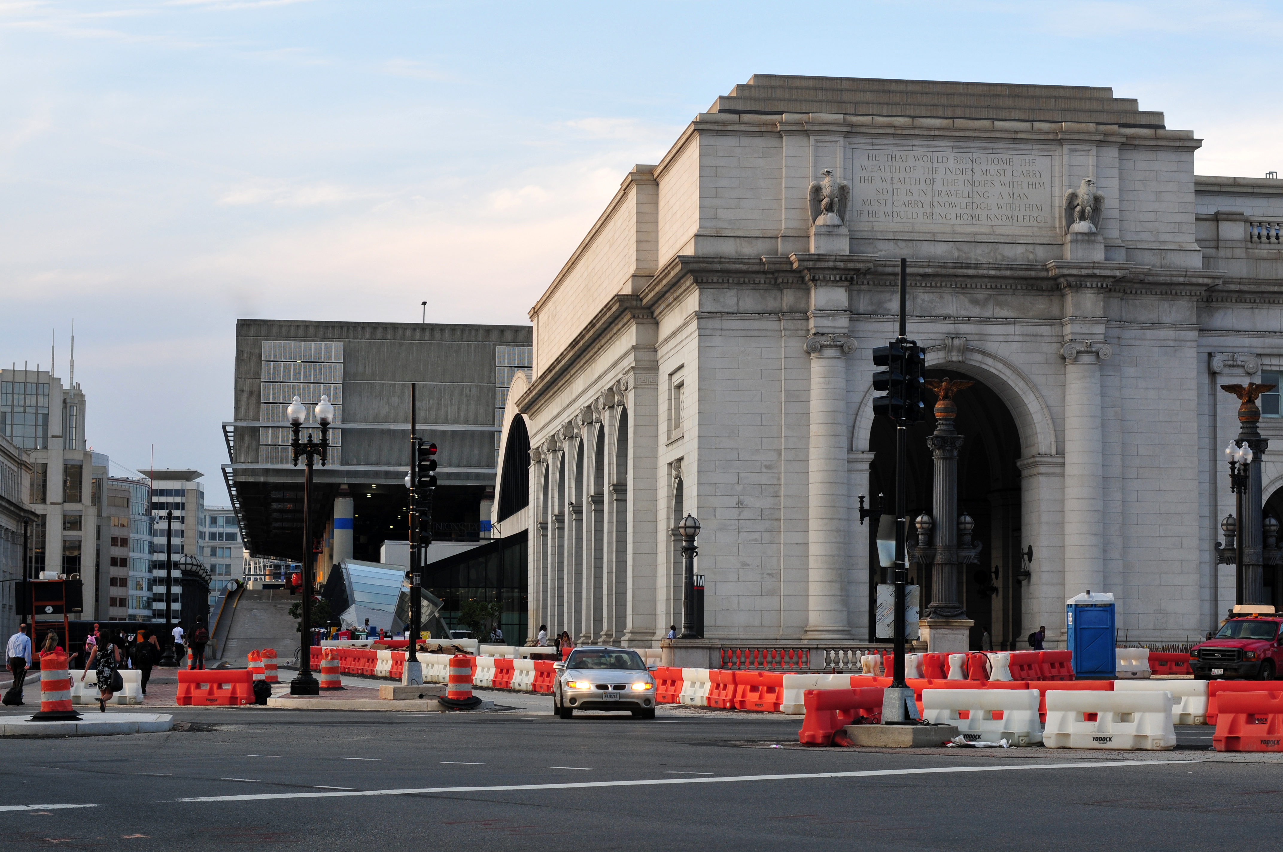 Union Station in reconstruction, Washington D.C. The making of this work was supported by Wikimedia Austria. For other files made with the support of Wikimedia Austria, please see the category Supported by Wikimedia Österreich.